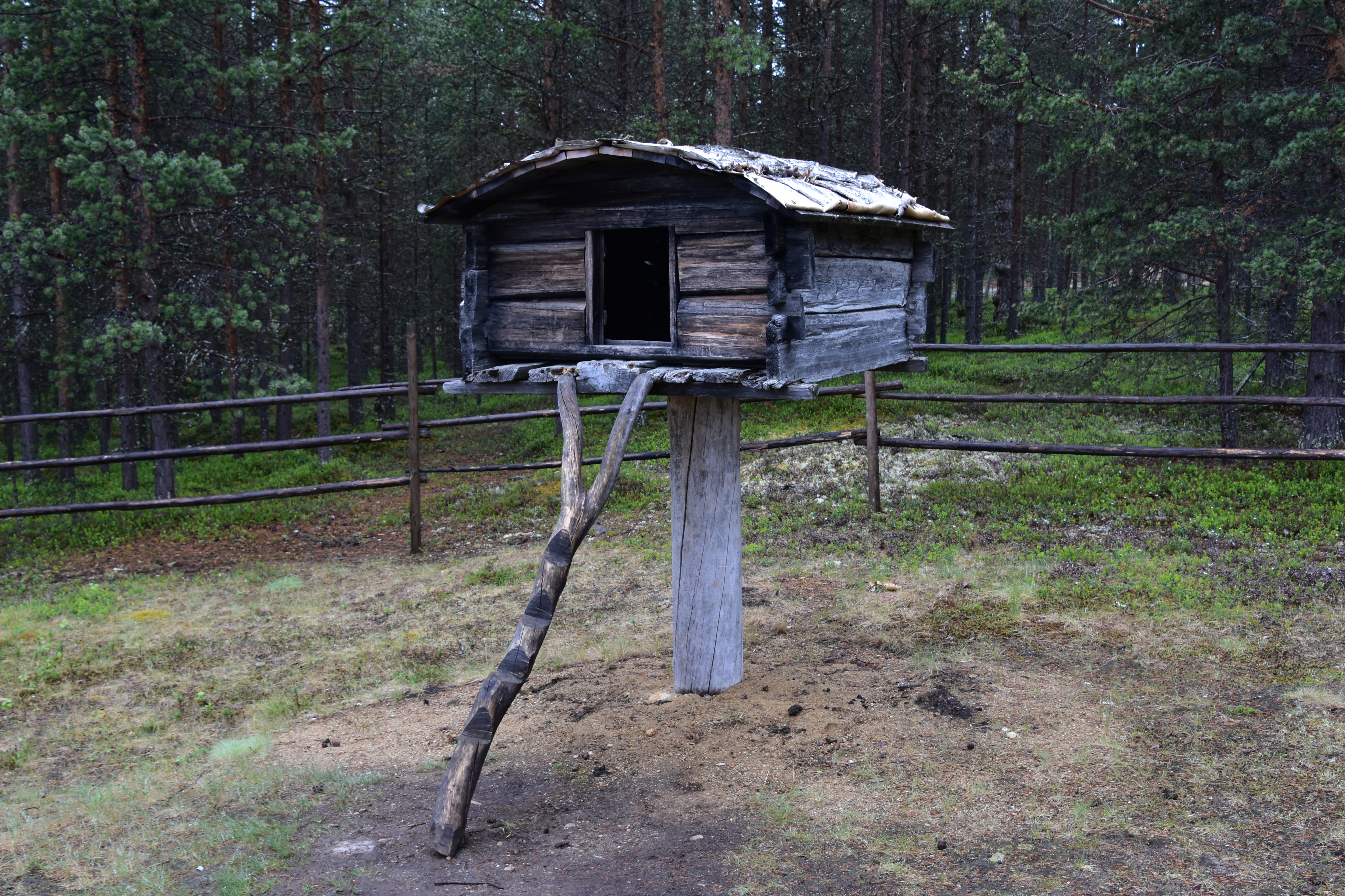 Elevated storage facility, Siida Museum, Inari, Finland